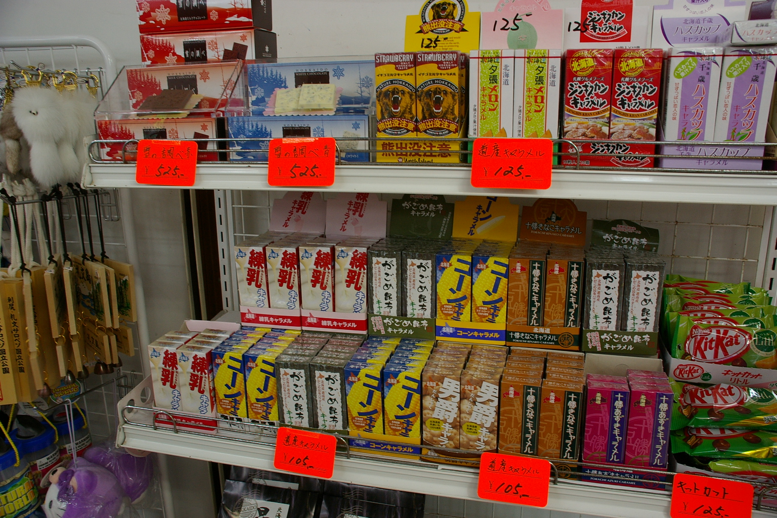 Various caramels of the Hokkaido limitation.